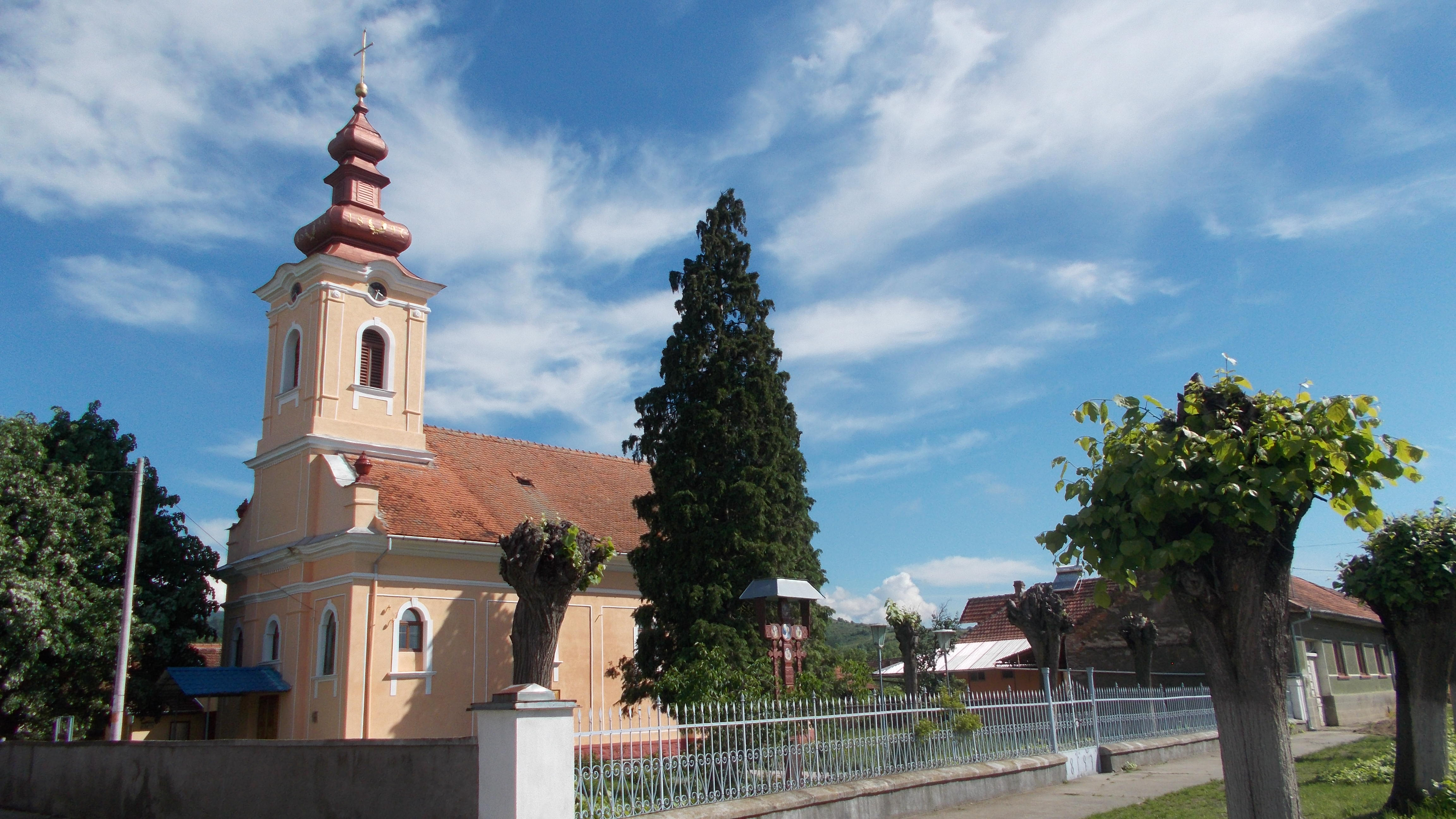 Prilipeț, Caraș-Severin County, Romania